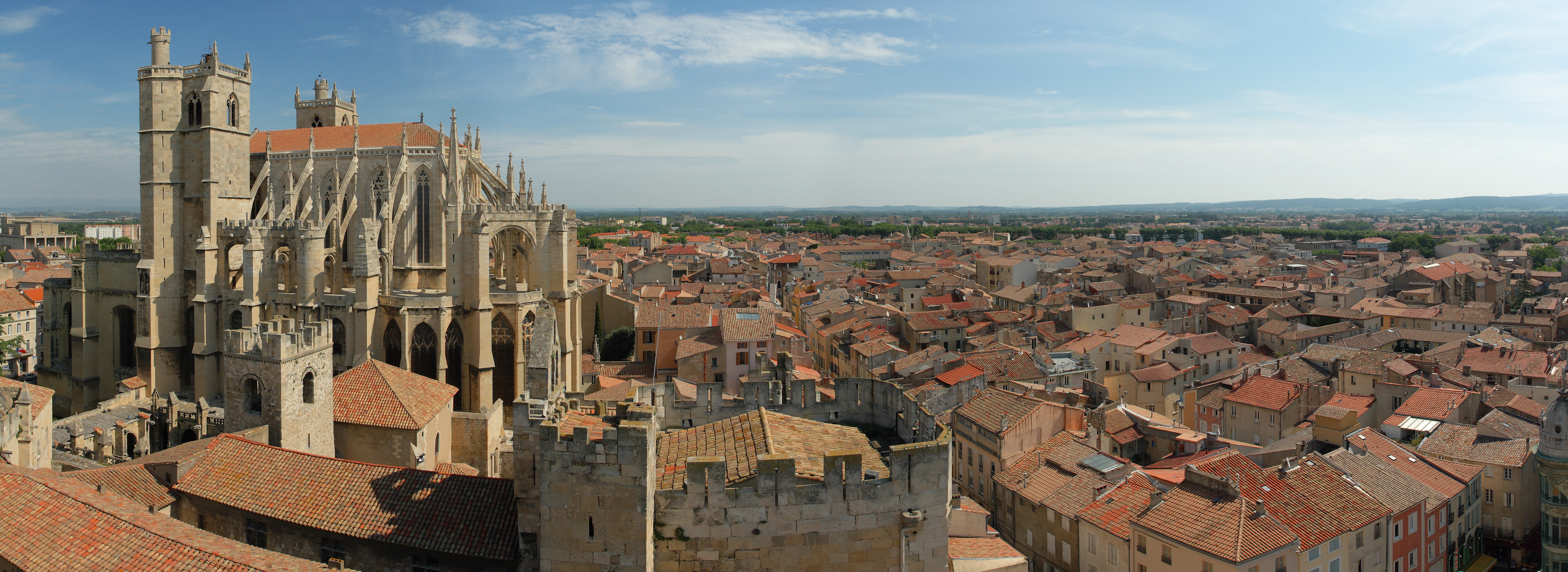 City of Narbonne in south of France, and the Saint Just cathedral, viewed from the Gilles Aycelin dungeon. This panorama is made from 4 portrait pictures taken à 17mm on a 1.6 crop body (28mm équiv.), f/8.0, 1/500s and ISO100. Original pictures were underexposed, but fixed with Gimp. Stitching was done with Hugin and Enblend. Resulting horizontal FOV is about 130°.